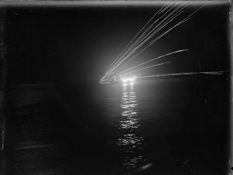 The Royal Navy during the Second World War Salerno, 9 September 1943 (Operation Avalanche): During Operation AVALANCHE, a night photograph taken from the battleship WARSPITE during the landings, showing the effect of anti-aircraft fire from Allied warships in response to low level German aerial torpedo attack. It lasted for two hours and the destroyer INGLEFIELD shot down one of the raiders. WARSPITE successfully dodged two torpedos.